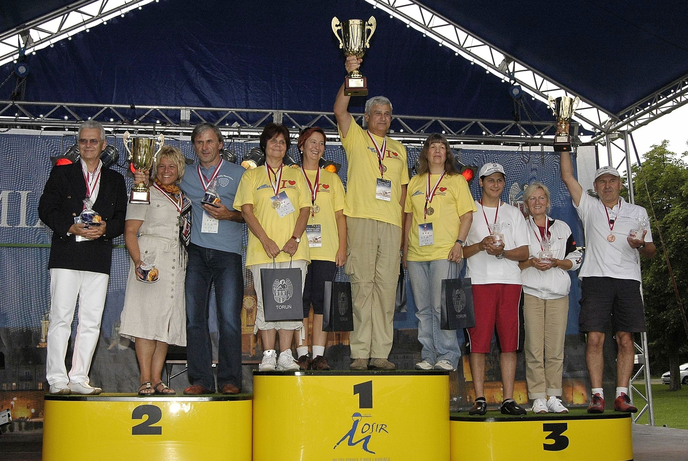 14th World Summer Polonia Games in Toruń